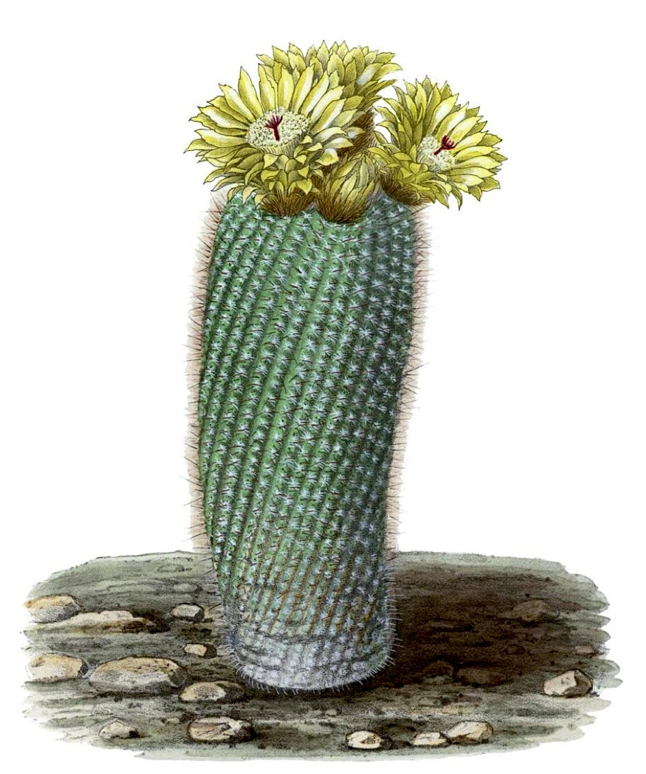 Parodia scopa